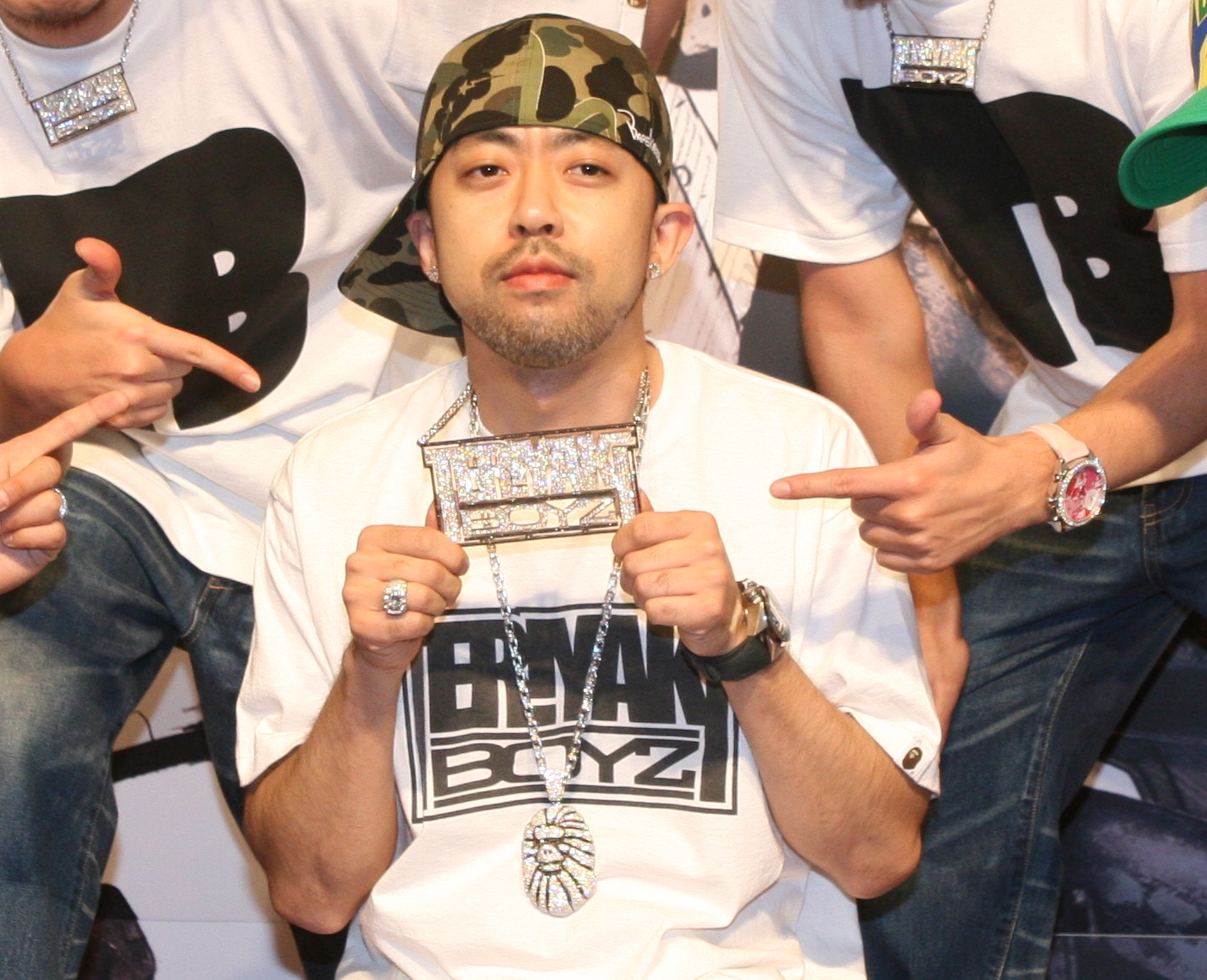 Japanese fashion designer and music producer Nigo in Bangkok, Thailand, 2006.